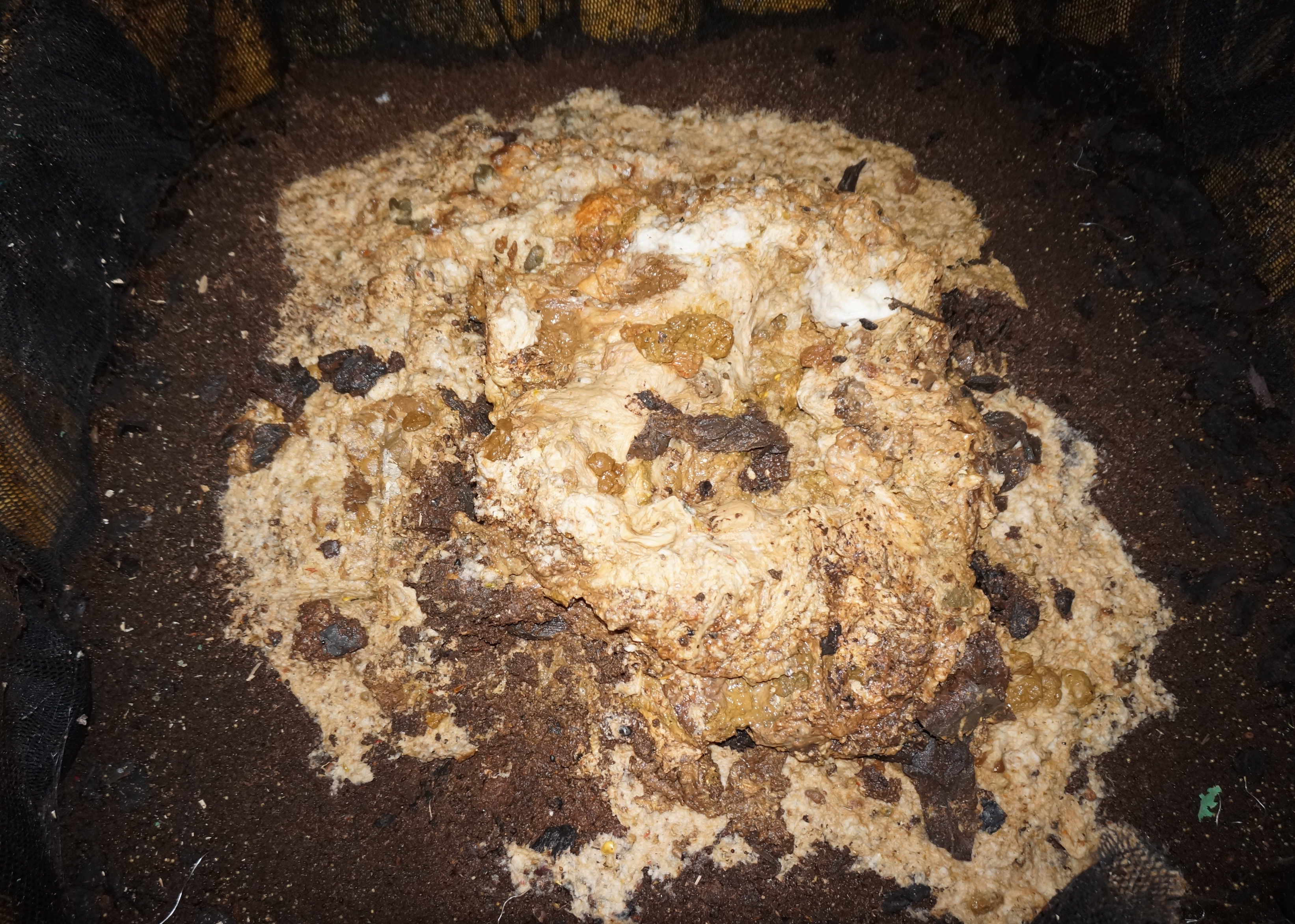 Vermicomposting of toilet blackwater 2